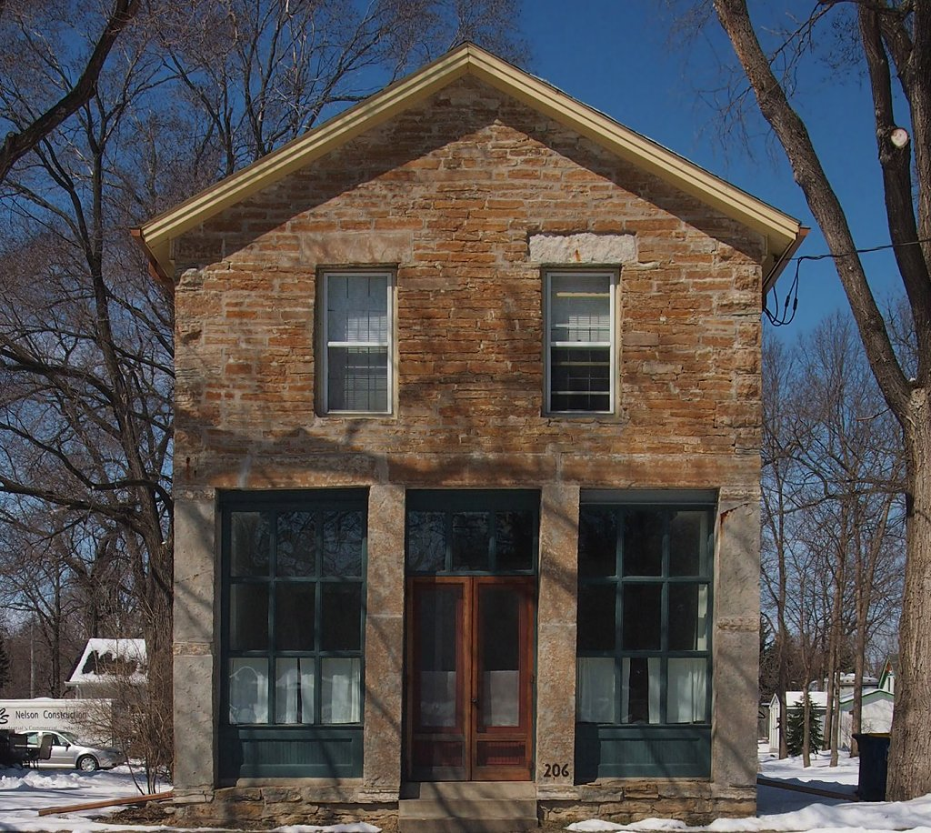 Ault Store, 206 2nd St, Dundas, Minnesota, USA. Viewed from the southeast.